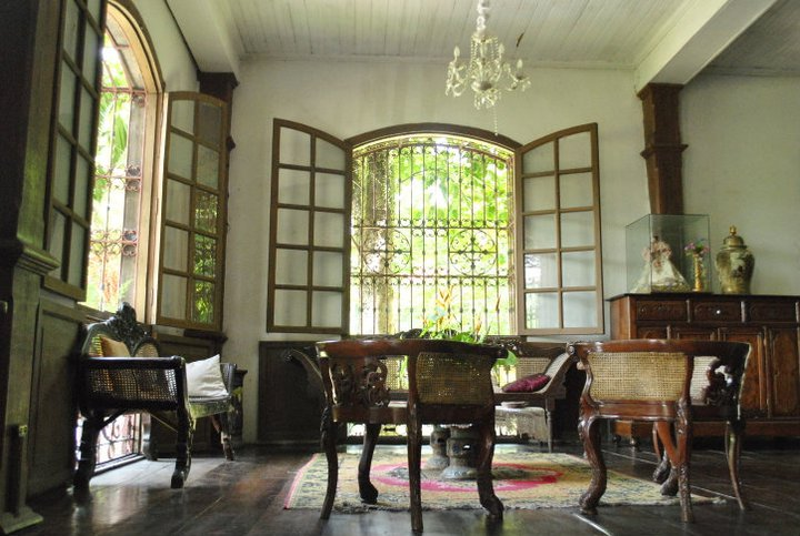 Interior shot of one of the oldest ancestral house in Silay